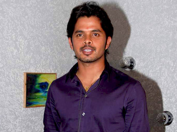 Sreesanth on the sets of KBC